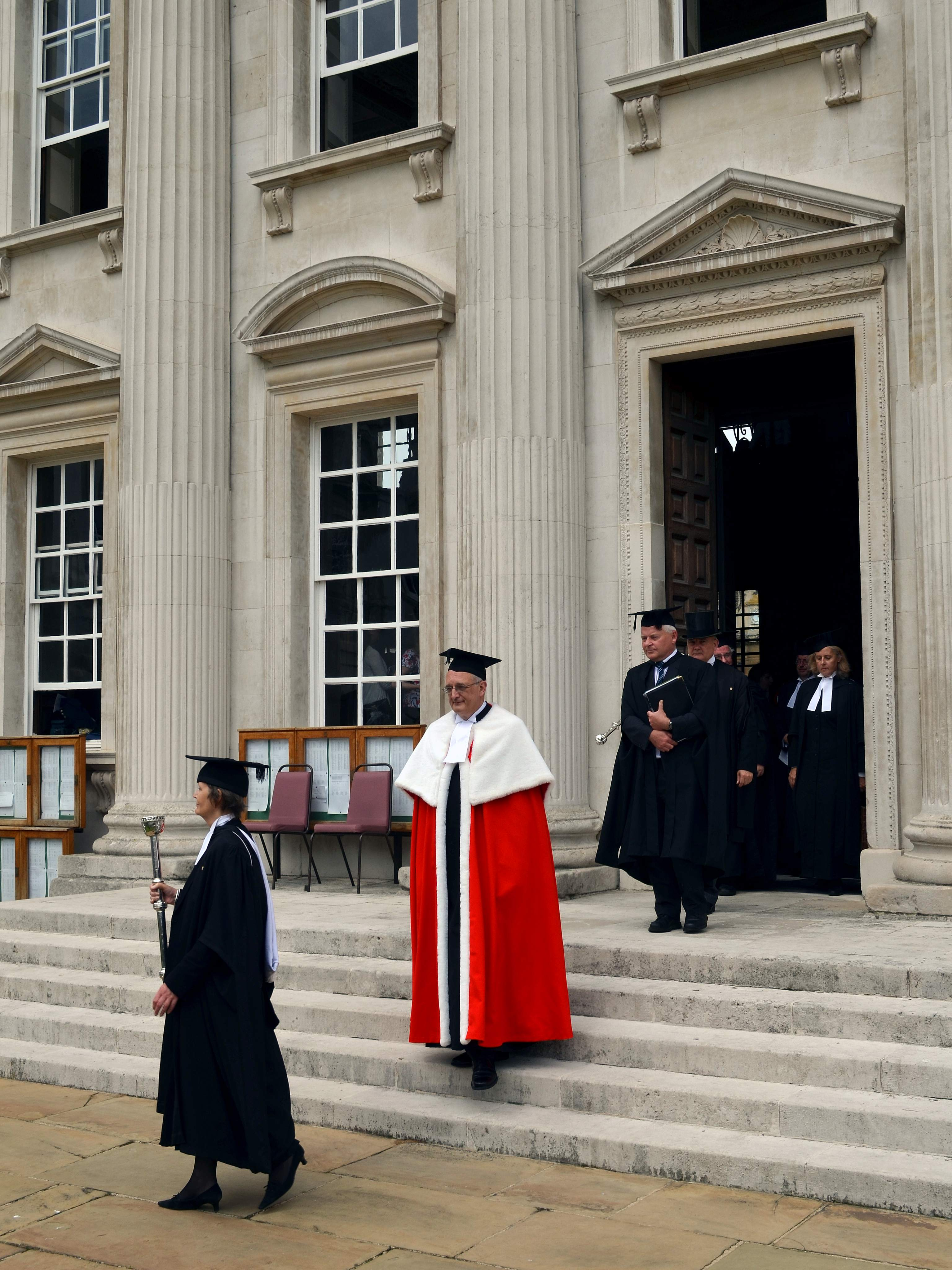 Officers of the University of Cambridge Regent House, including Vice-Chancellor Professor Sir Leszek Borysiewicz (in red gown), after a graduation ceremony at the Senate House in July 2014.